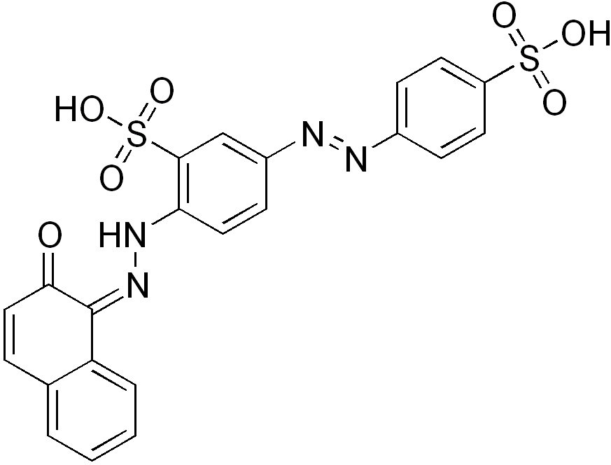 chemical structure of Biebrich_scarlet